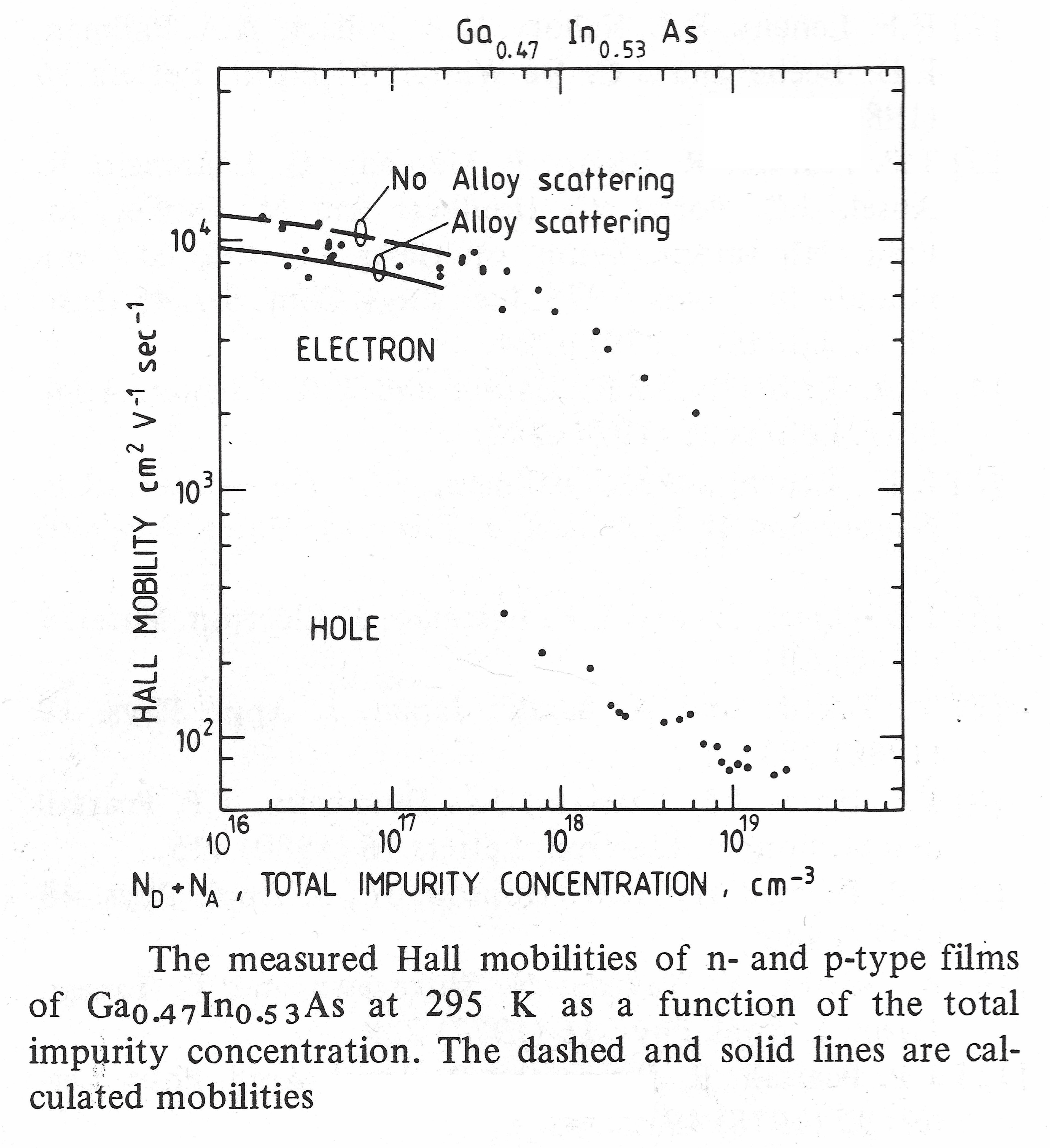 Experimental measurement of electron and hole mobilities in GaInAs as a function of total impurity concentration